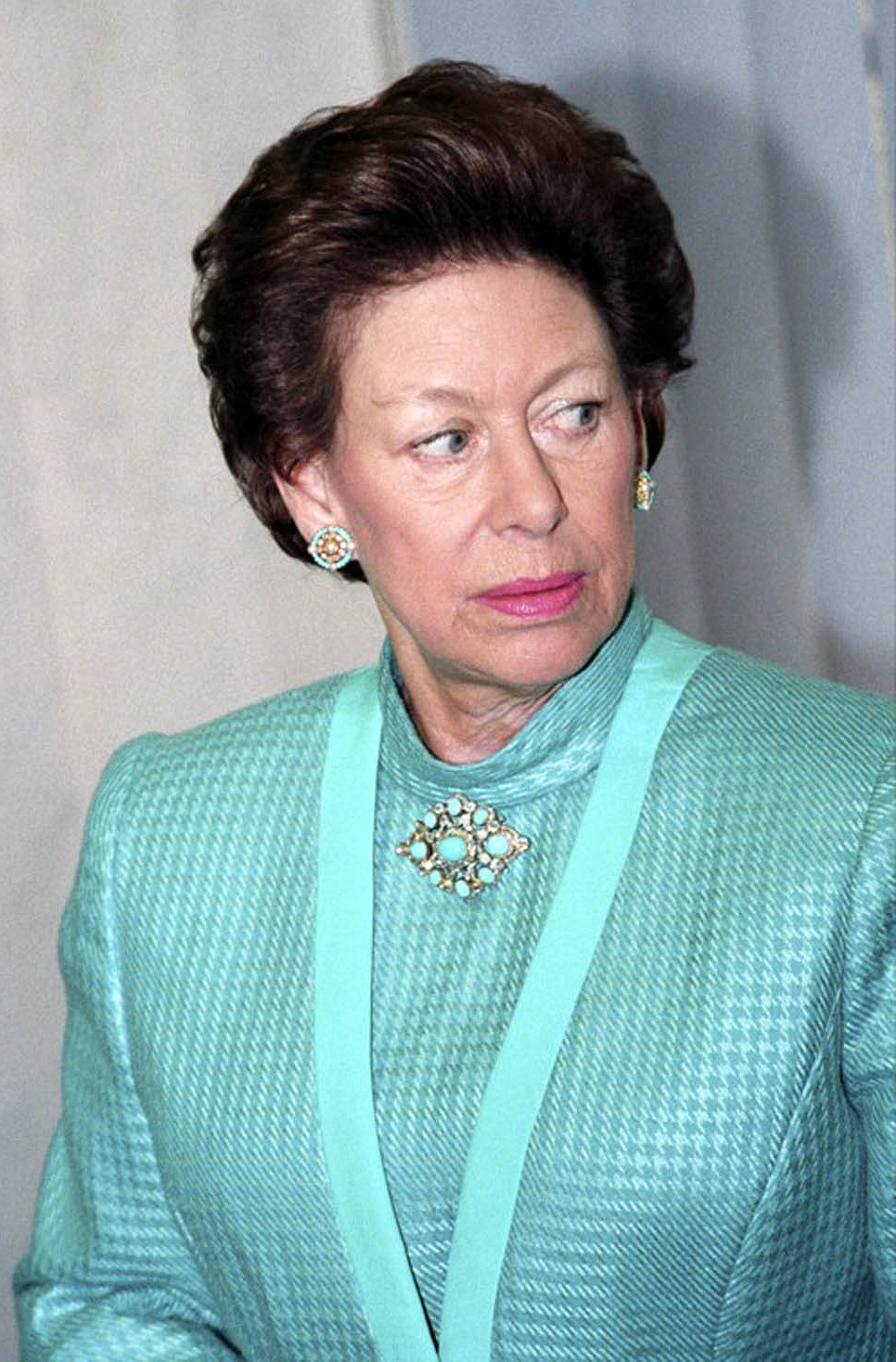 Princess Margaret, Countess of Snowdon (1930-2002) Originally uploaded under the license "all rights reserved". Approved Creative Commons license by email (attribution required).